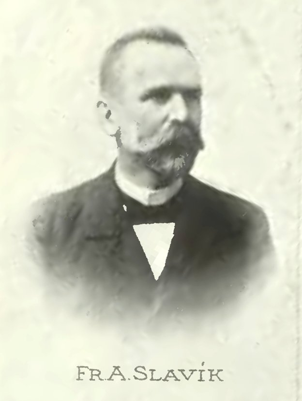 Portrait of František Augustin Slavík (1846-1919), Czech high-school teacher, historian of literature and an archeologist.